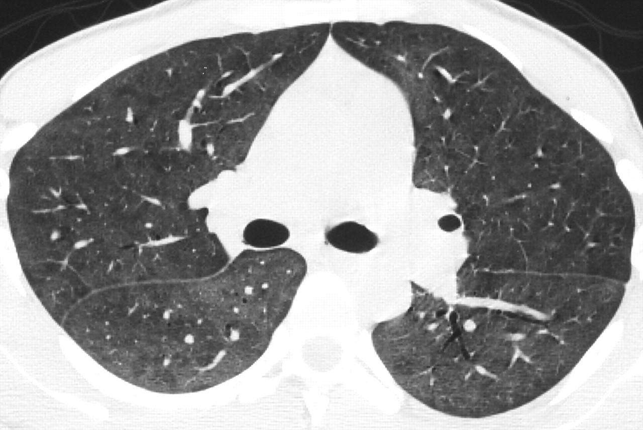 CT: Pattern of bilateral ground glass AIDS infected Pnemocystis carinii